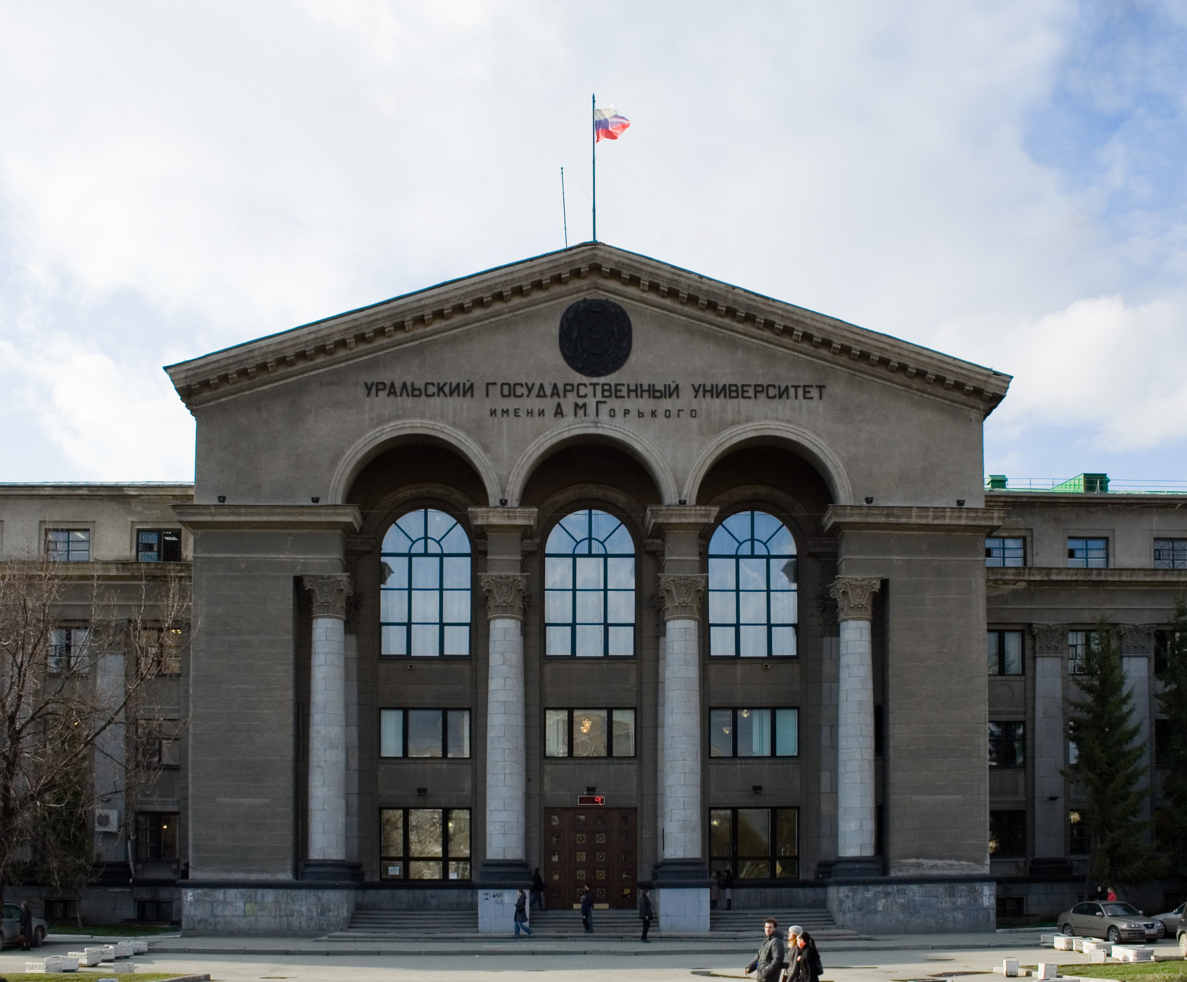 Yekaterinburg, Ural State University.